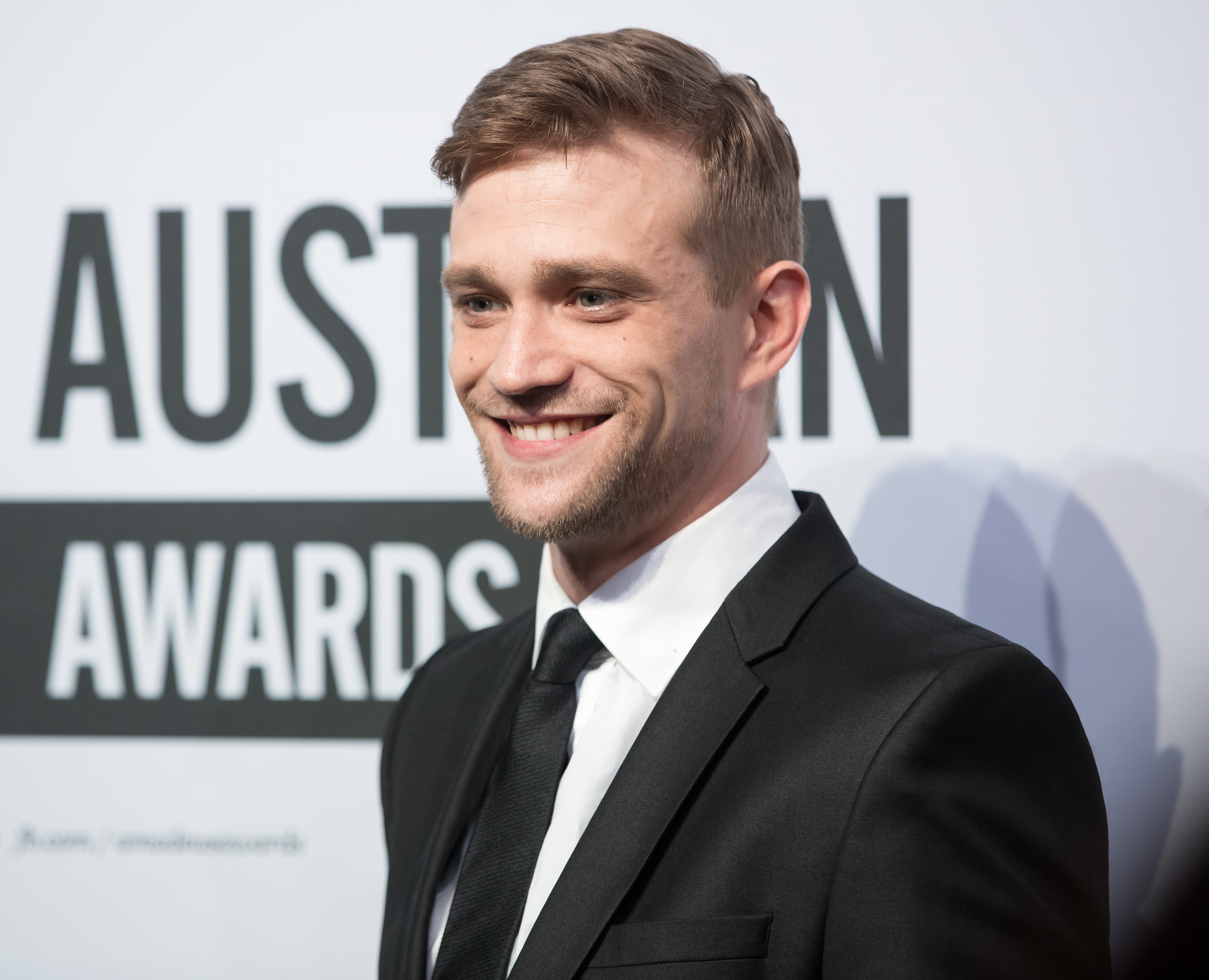 Michael Steinocher at the Amadeus Austrian Music Award 2015 at Volkstheater in Vienna